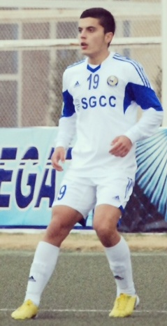 Football Playerdadajon.mamatkulov